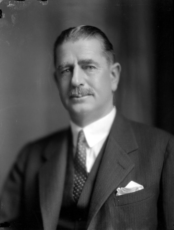 Photograph of Joseph Gordon Coates in 1931.